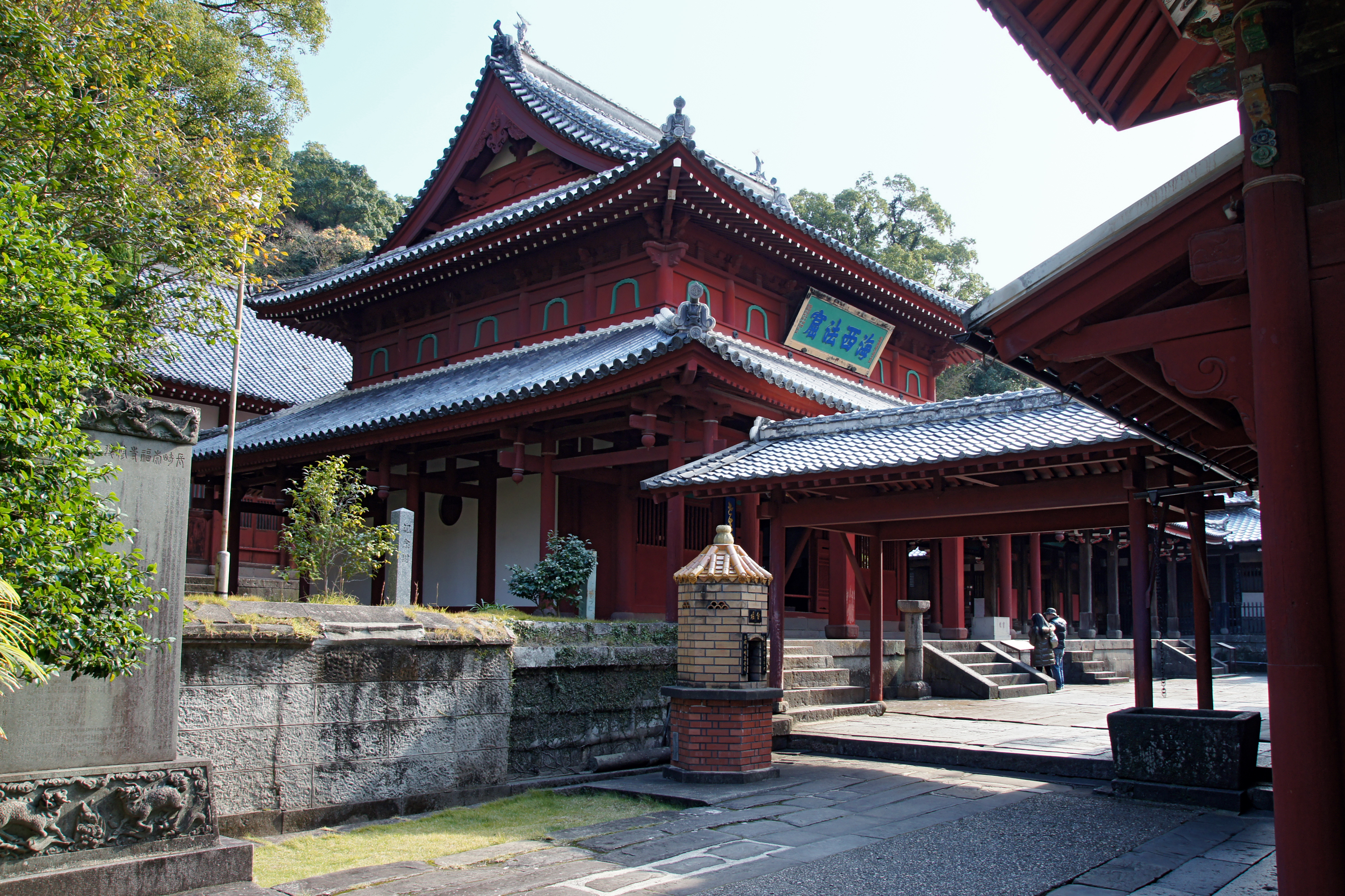 Sofuku-ji in Nagasaki, Nagasaki prefecture, Japan.